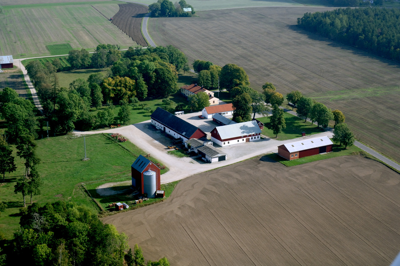 Stenstugu